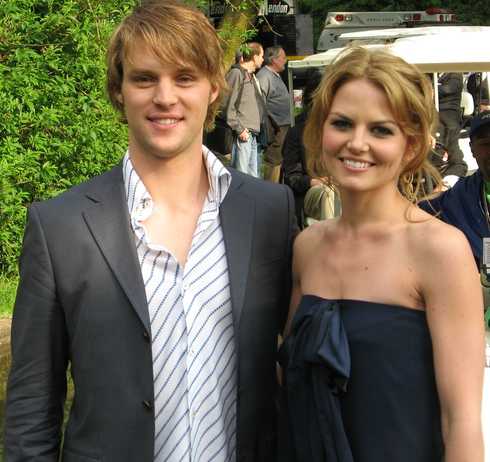 Jesse Spencer and Jennifer Morrison at Fox Upfronts 2007